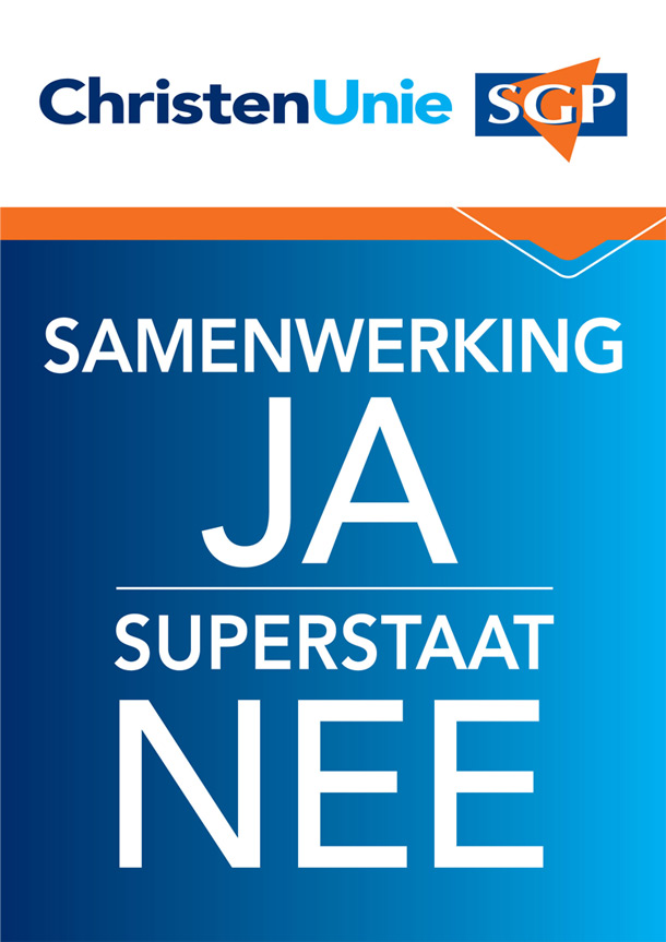 Poster used by the Christen Unie-SGP coalition in the European Parliament elections of 2014